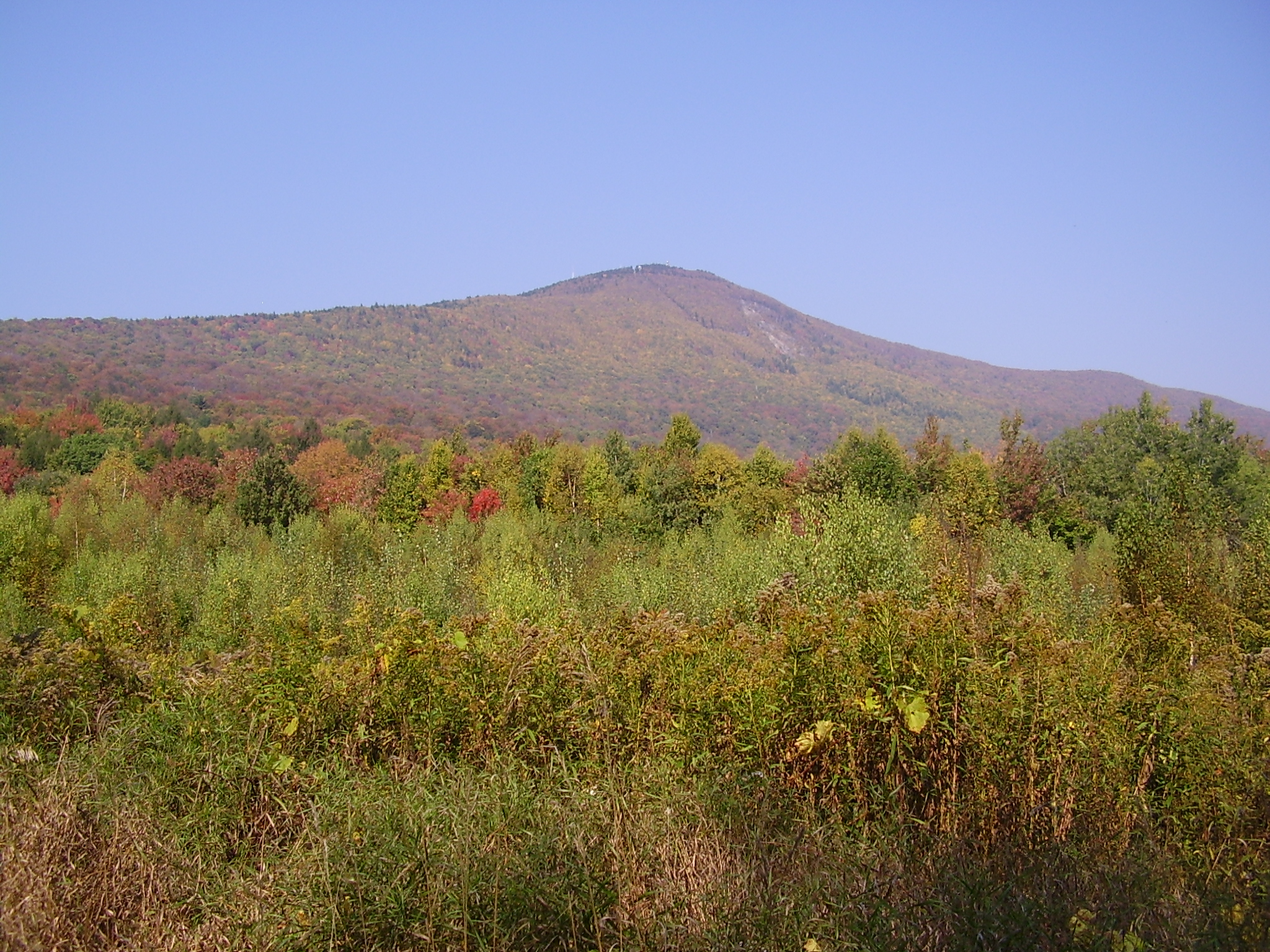 An Entire Shot of Mount Greylock, MA